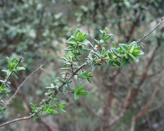 (en) Garden Thyme (Thymus vulgaris), in France (Bouche du Rhône), a photography originating of the internet site The accord of the autor, H. Brisse, is here. (fr) Thym commun (Thymus vulgaris), en France (Bouche du Rhône), une photographie issue du site internet L'accord de l'auteur, H. Brisse, se situe ici. (de)Echter Thymian, (it)Timo maggiore, (es)Tomillo común